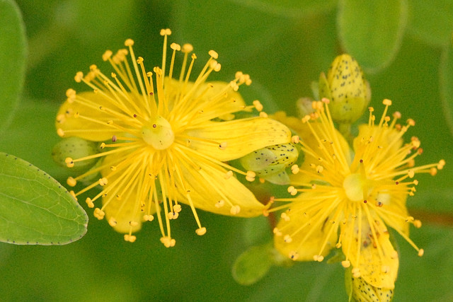 Hypericum maculatum from Commanster, Belgian High Ardennes.